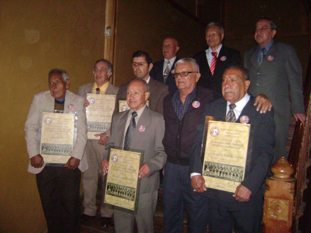 Xelajú MC Champions 1962